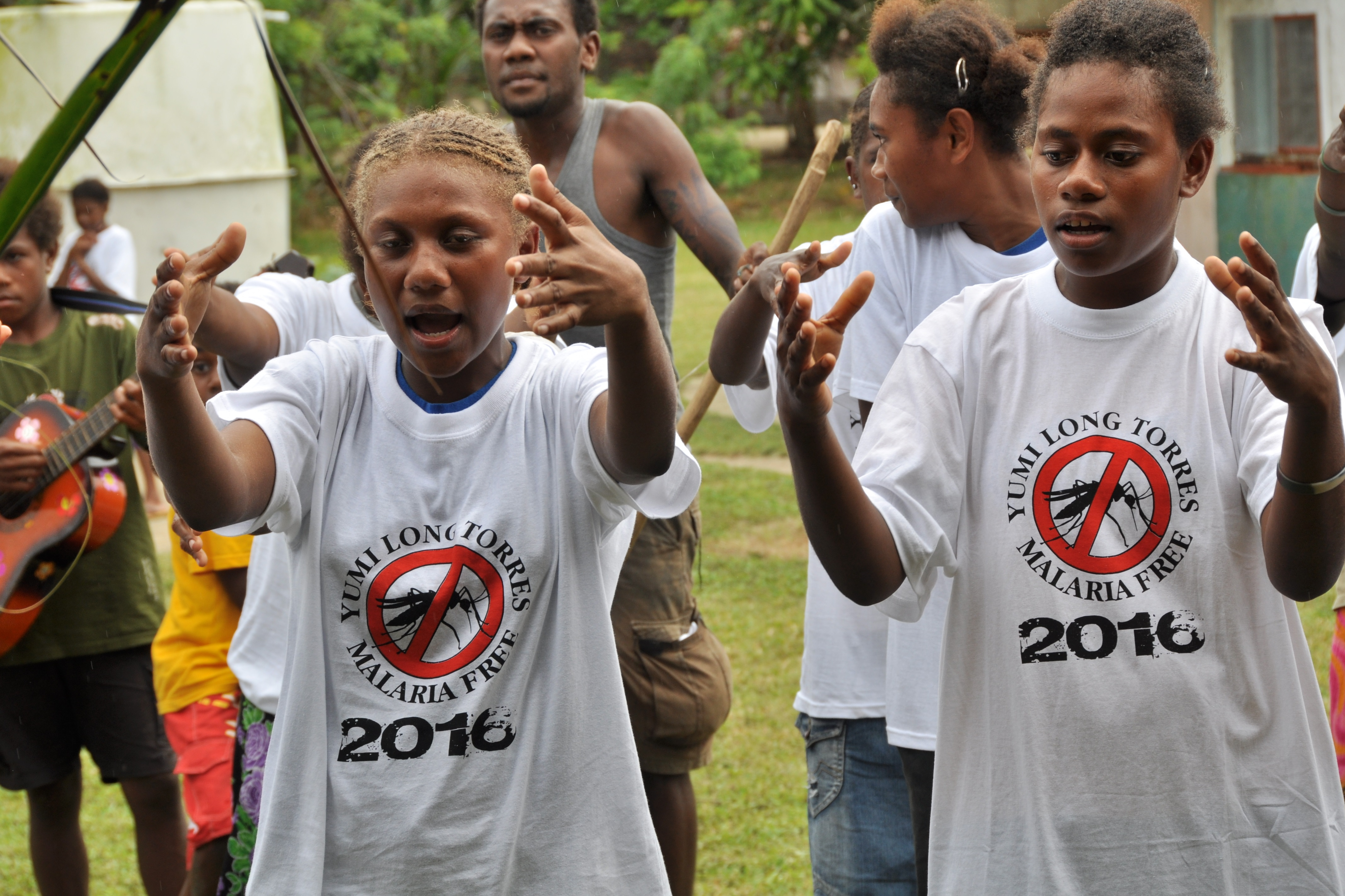 Launch of a program to eliminate malaria, Loh Island, Vanuatu, September 2012. Photo: Yohann Lemonnier / DFAT